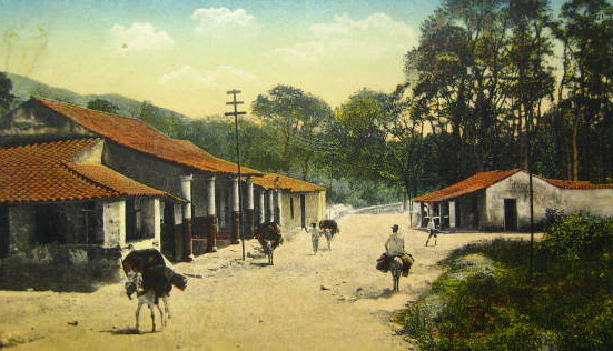 Road to Petare, 1900s.